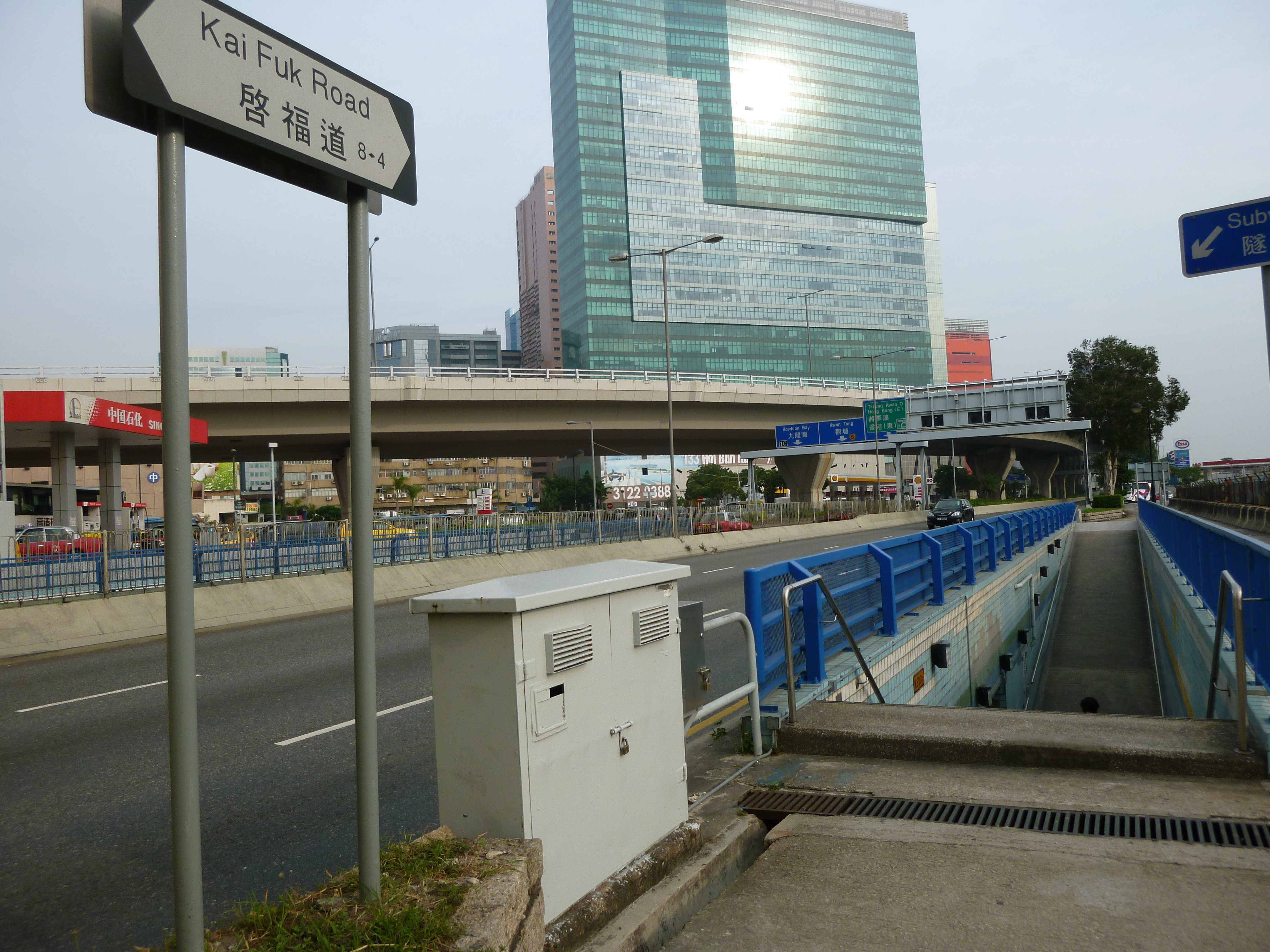 Kai Fuk Road, Kwun Tong, Kowloon, Hong Kong